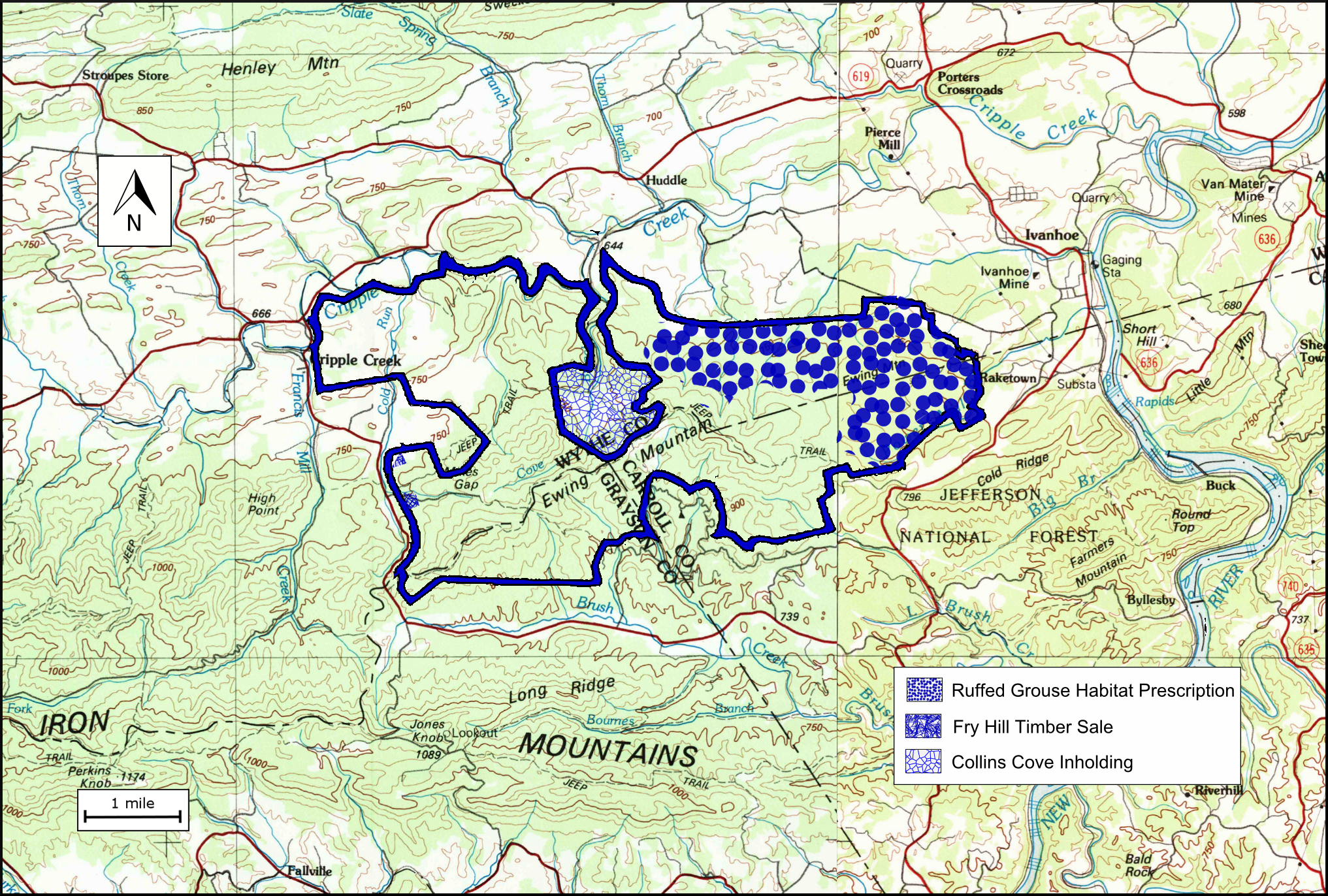 Boundary of the Devils Den wildland in the Jefferson National Forest as identified by the Wilderness Society